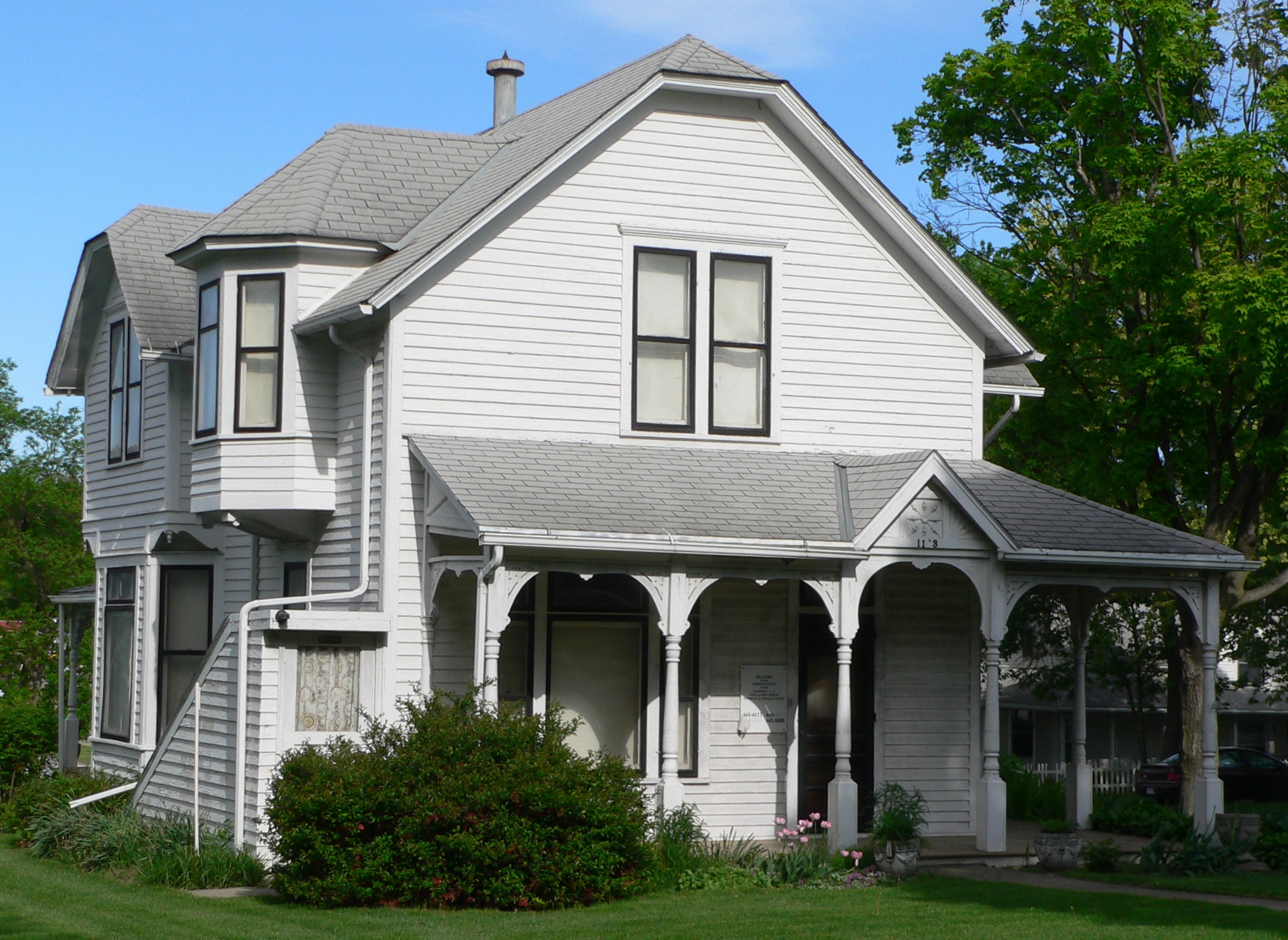 Howard Hanson House at 1163 Linden in Wahoo, Nebraska; seen from the southeast. The Queen Anne house was built in 1888. It is listed in the National Register of Historic Places for its architecture, and as the boyhood home of musician Howard Hanson. It is now operated as a museum.